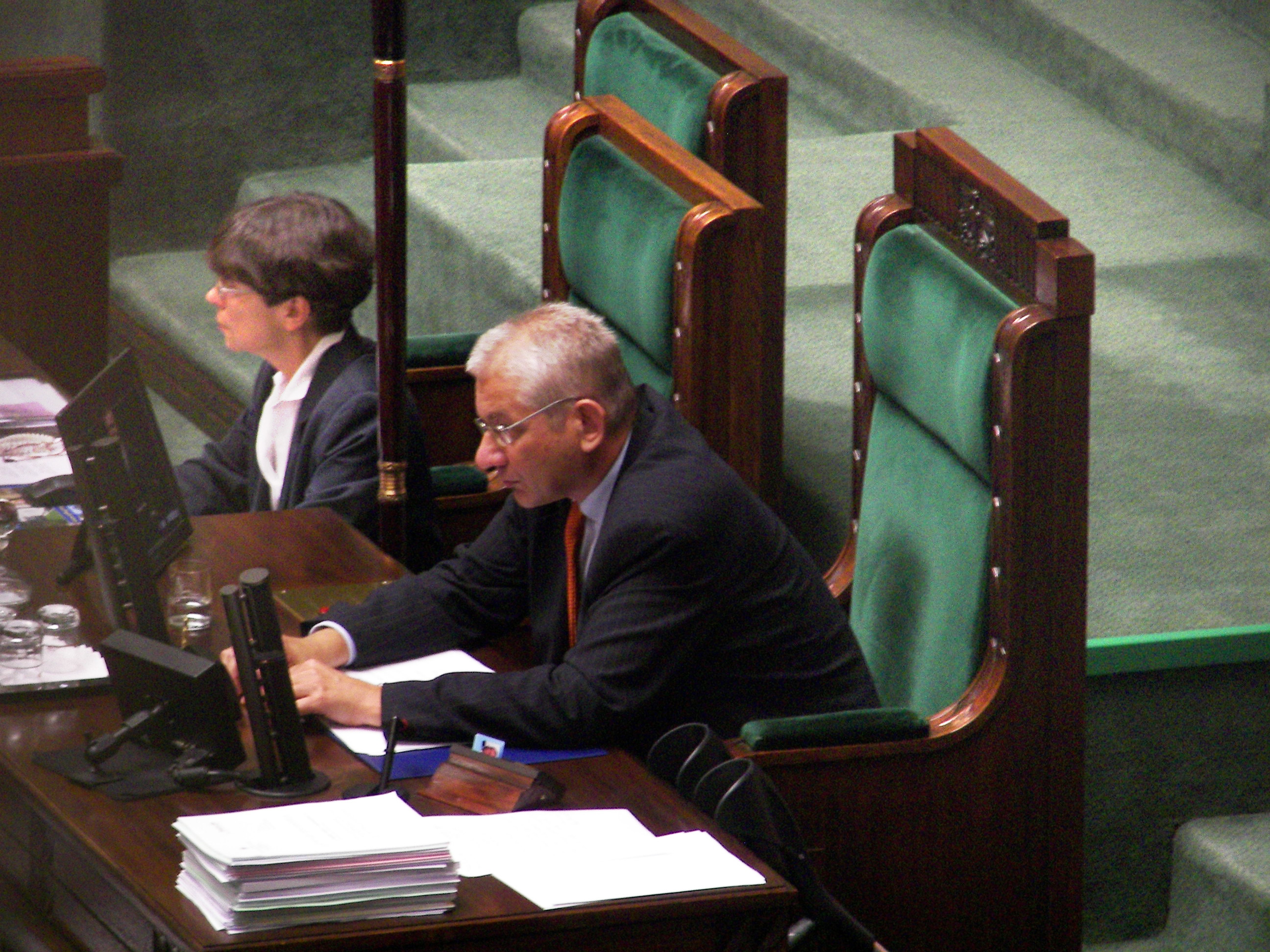 Poland's parliament called early elections (Fri Sep 7, 2007)